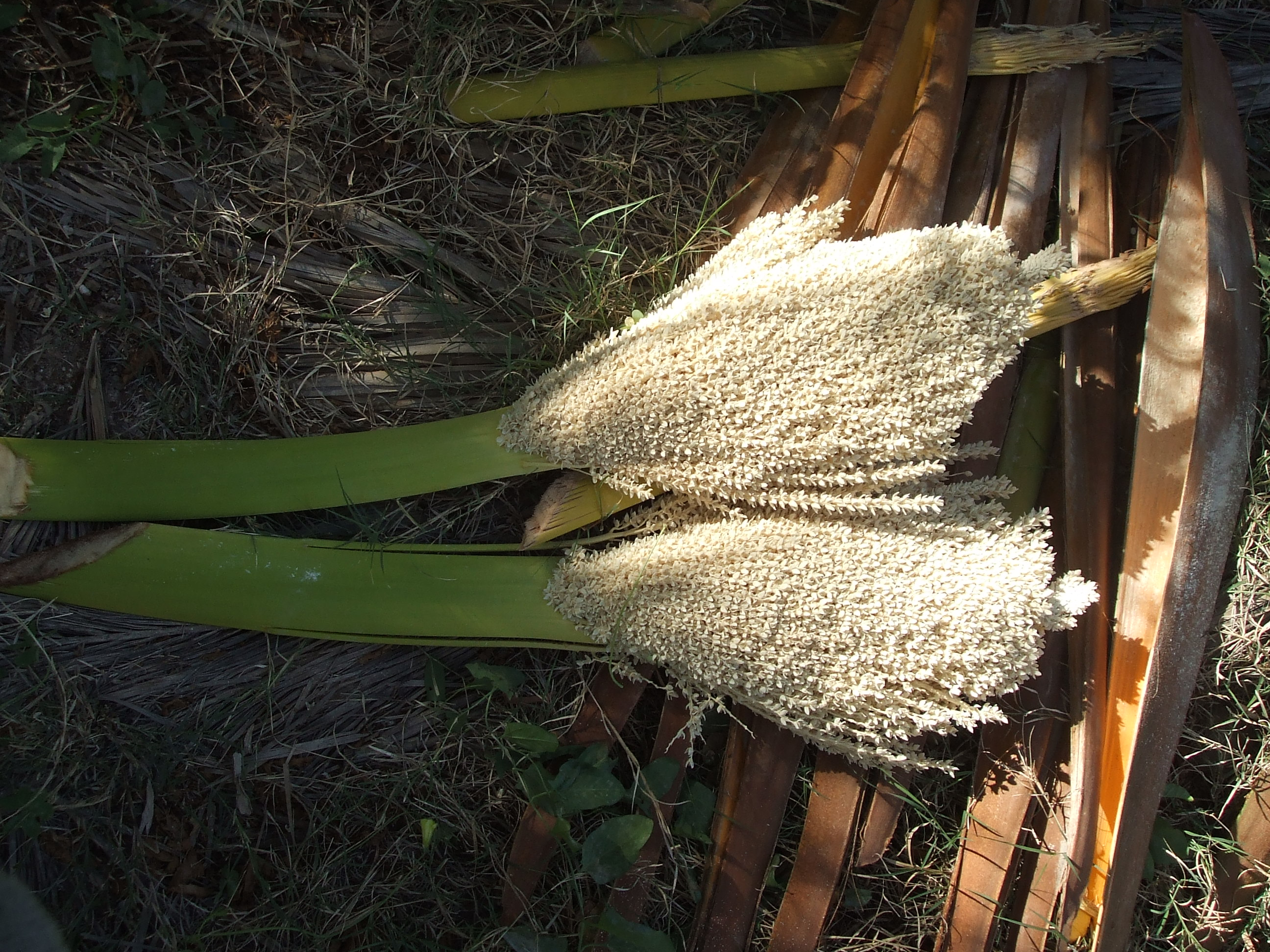 Male date palm's flowers (Phoenix dactylifera), var. Deglet Nour, in Dagash oasis (دقاش - Degache), Tuzar (توزر - Tozeur), Tunisia